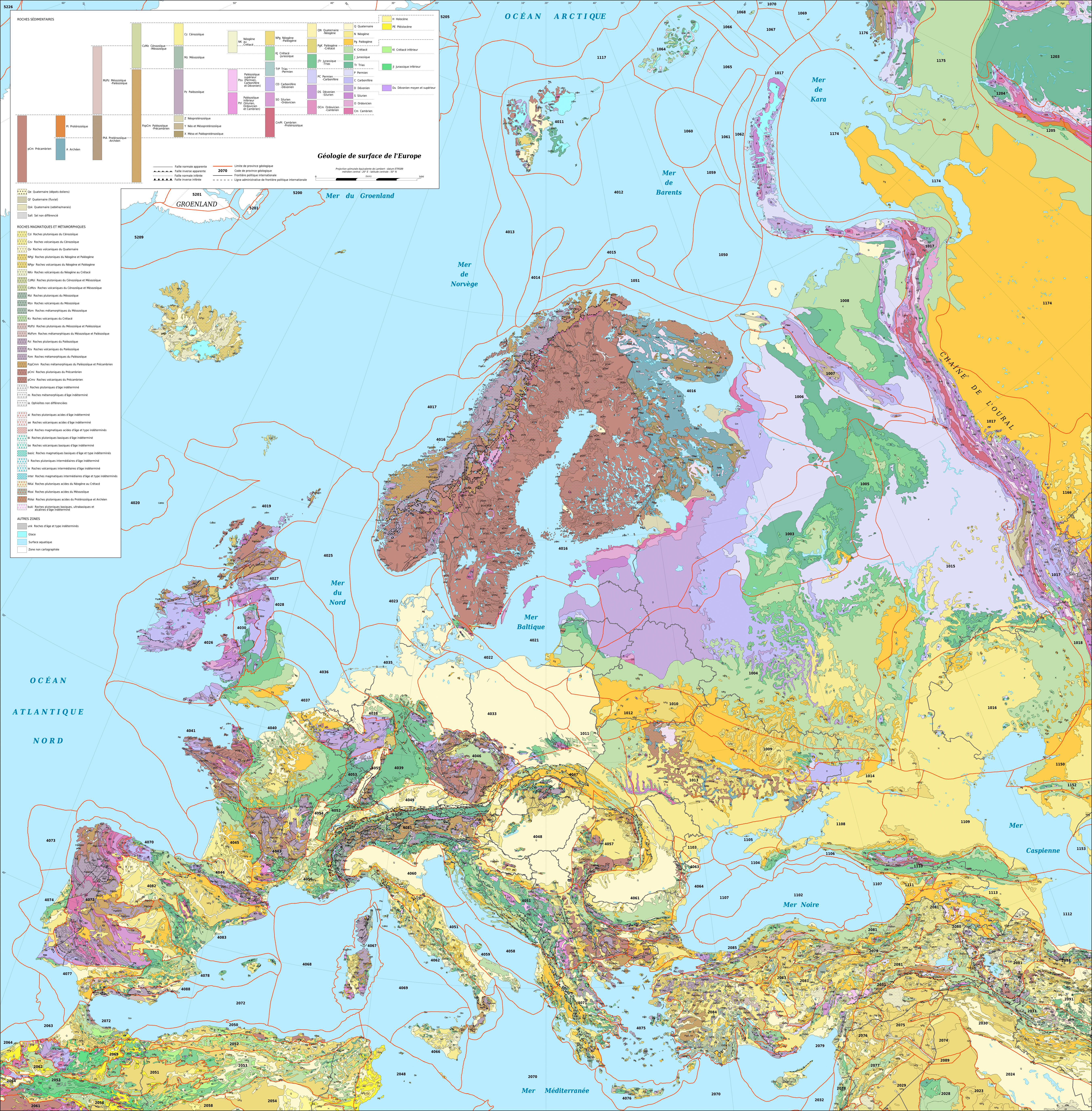 Map in French of the surficial geology of Europe.Note: For translations use the SVG version in English.A list of the names corresponding to the geologic provinces codes displayed on the map can be viewed on this page.